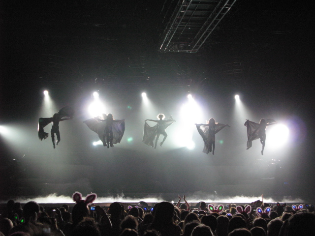 Thanks for looking at my pics, have a look at our other work at